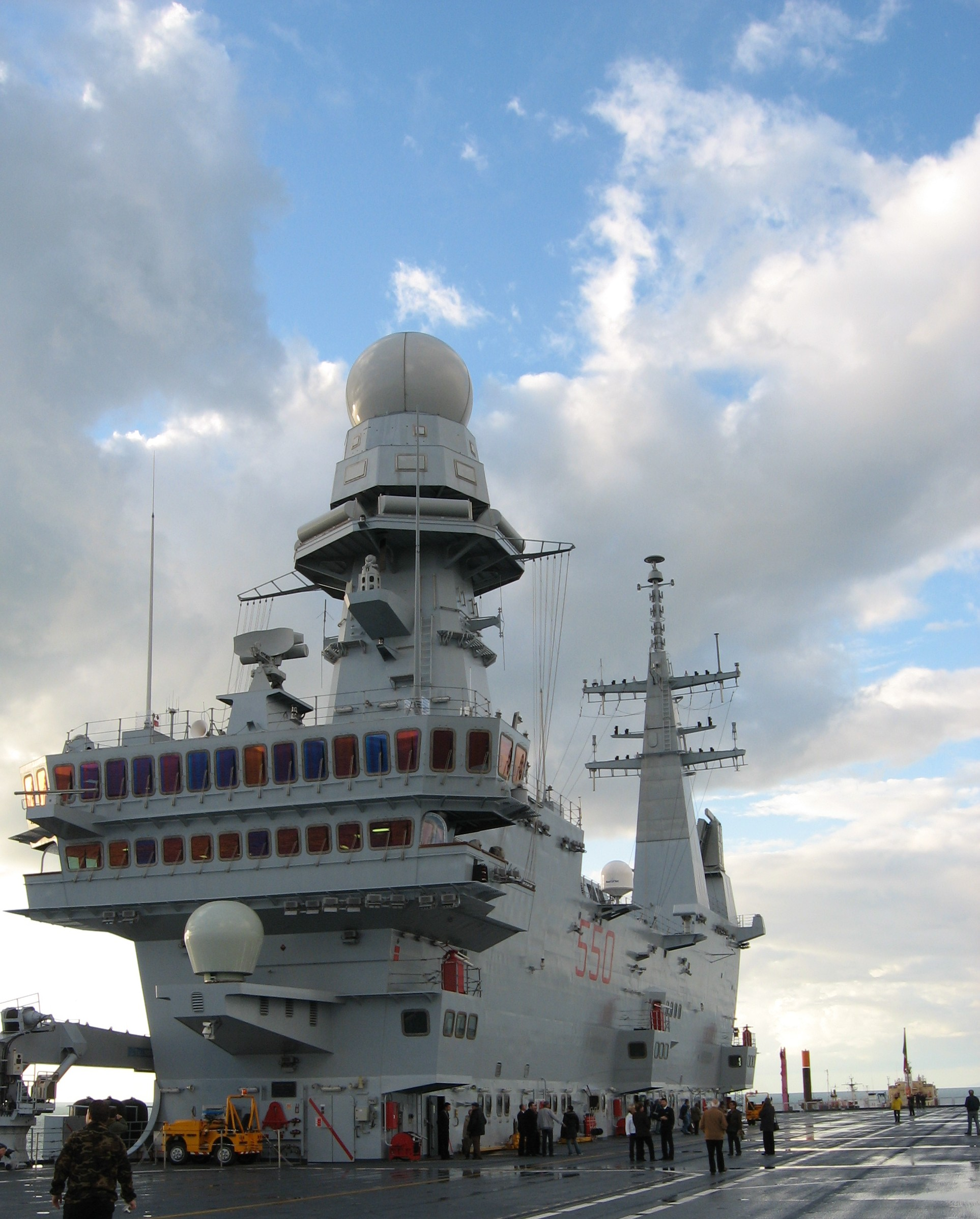 Lateral island structure of italian aircraft Cavour (550).